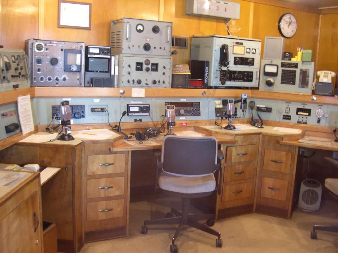 Radio room RMS Queen Mary in Long Beach, CA Source: Photo by User:Sfoskett